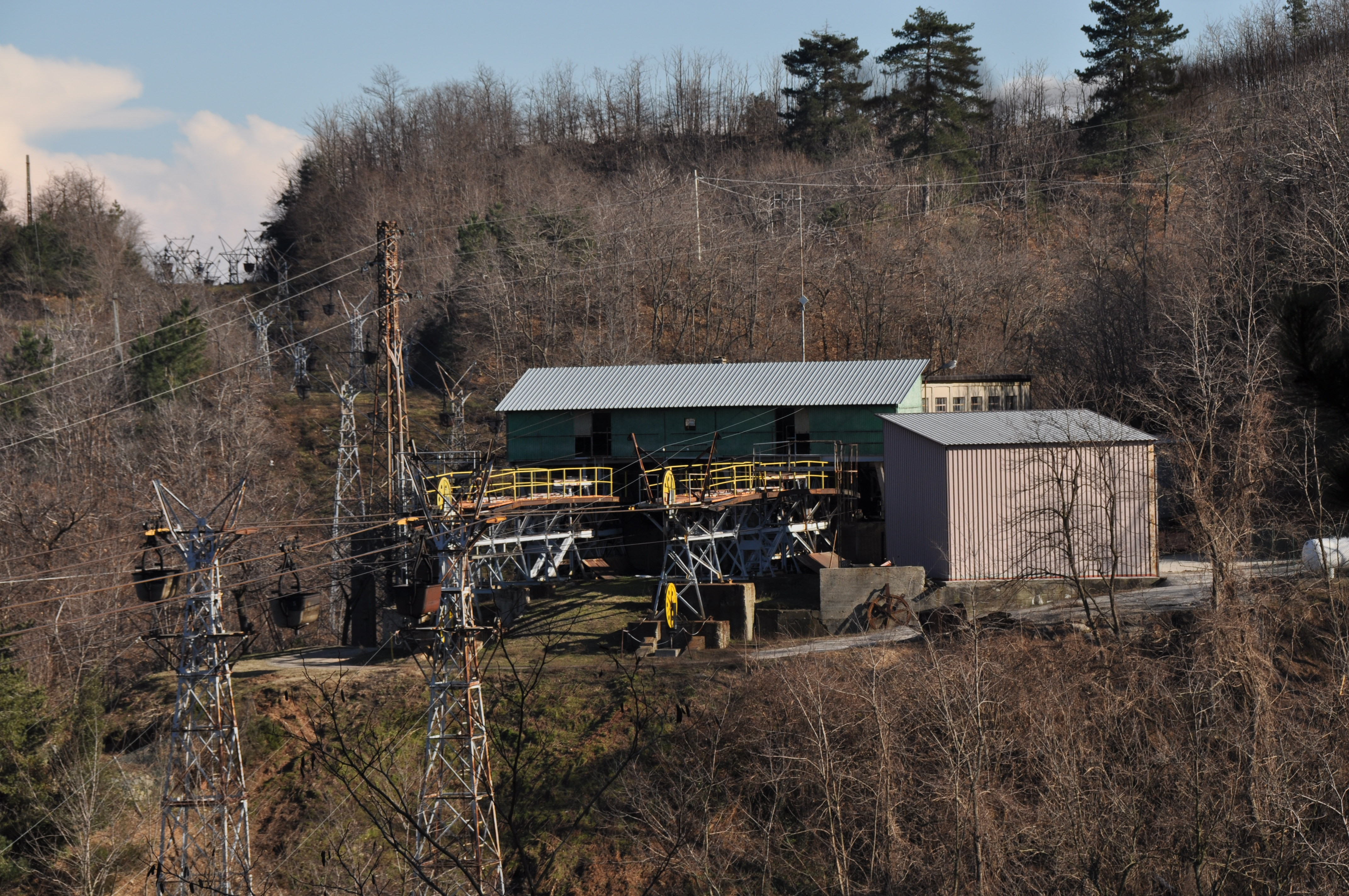 Ropeway Conveyer Savona-San Giuseppe, Transfer Station Cardibona